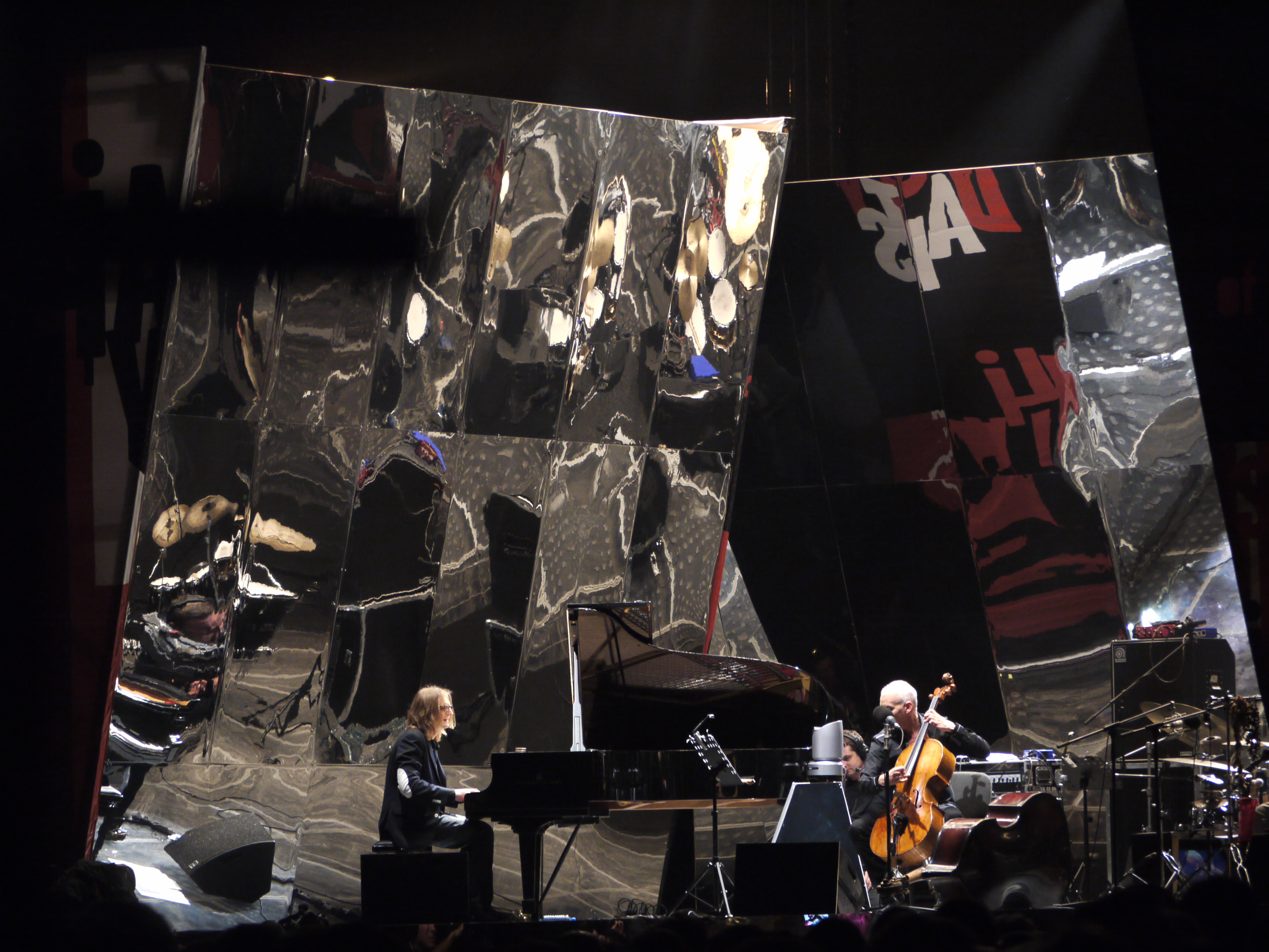 Lars Danielsson playing with Leszek Możdżer. Zohar Fresco was playing drums etc on the right side.